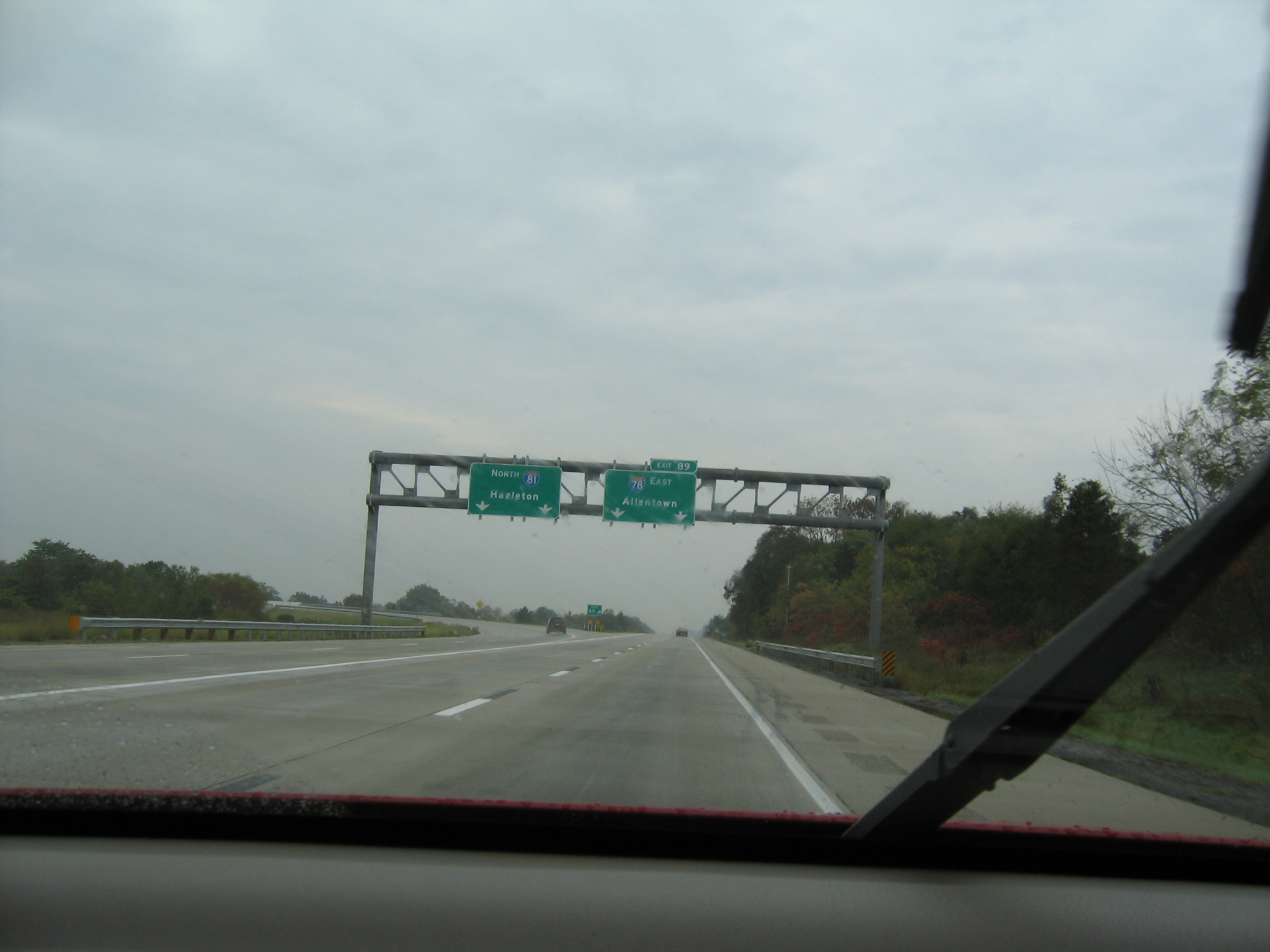 View of the Interstate 78 and Interstate 81 connection, from northbound Interstate 81.